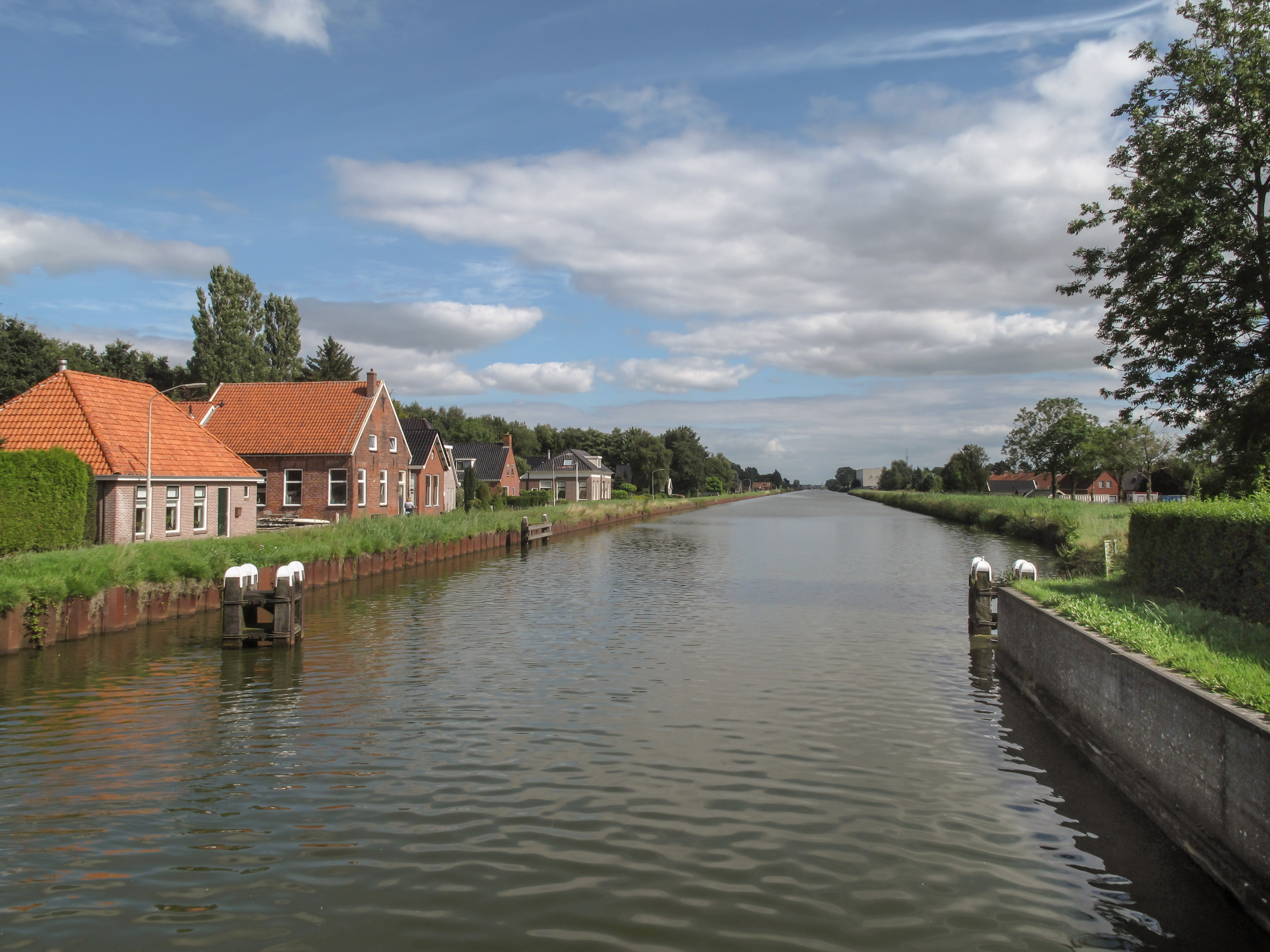 Zuidbroek, canal: het Winschoterdiep